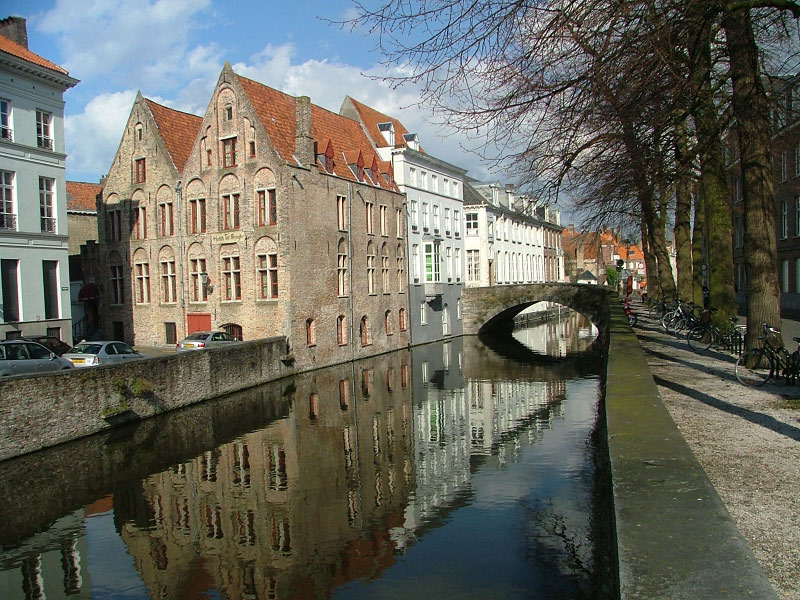 Photographed by Nathan Hawes on May 8th, 2006.